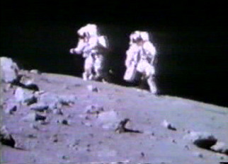 Astronauts Charles Duke (right) and John Young, walking back to the rover from the blocky rim crater at Station 4 on Stone Mountain near Cinco crater during Apollo 16 (EVA 2), on the moon.